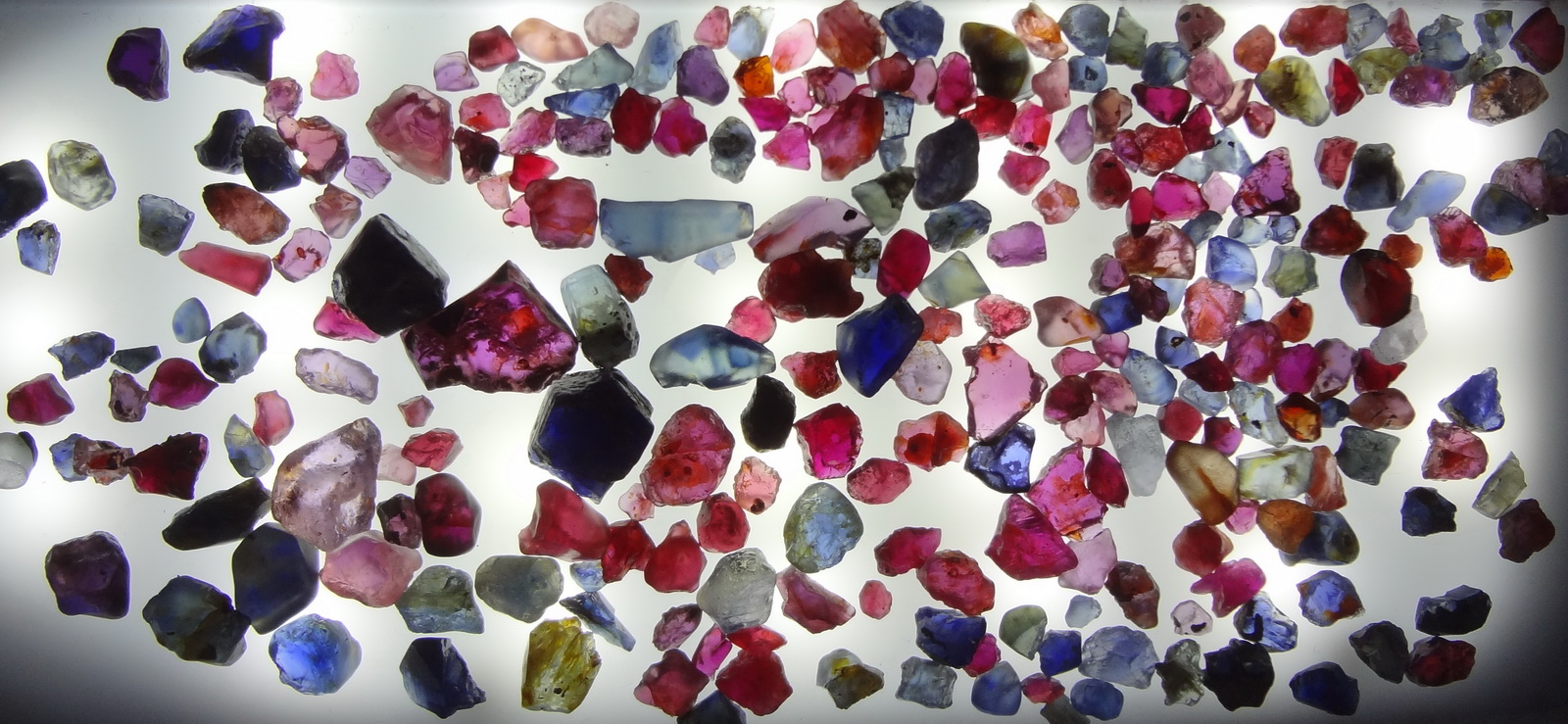 A wide variety of Sapphire colorus can be found, here rough sapphire from Pailin, Cambodia.